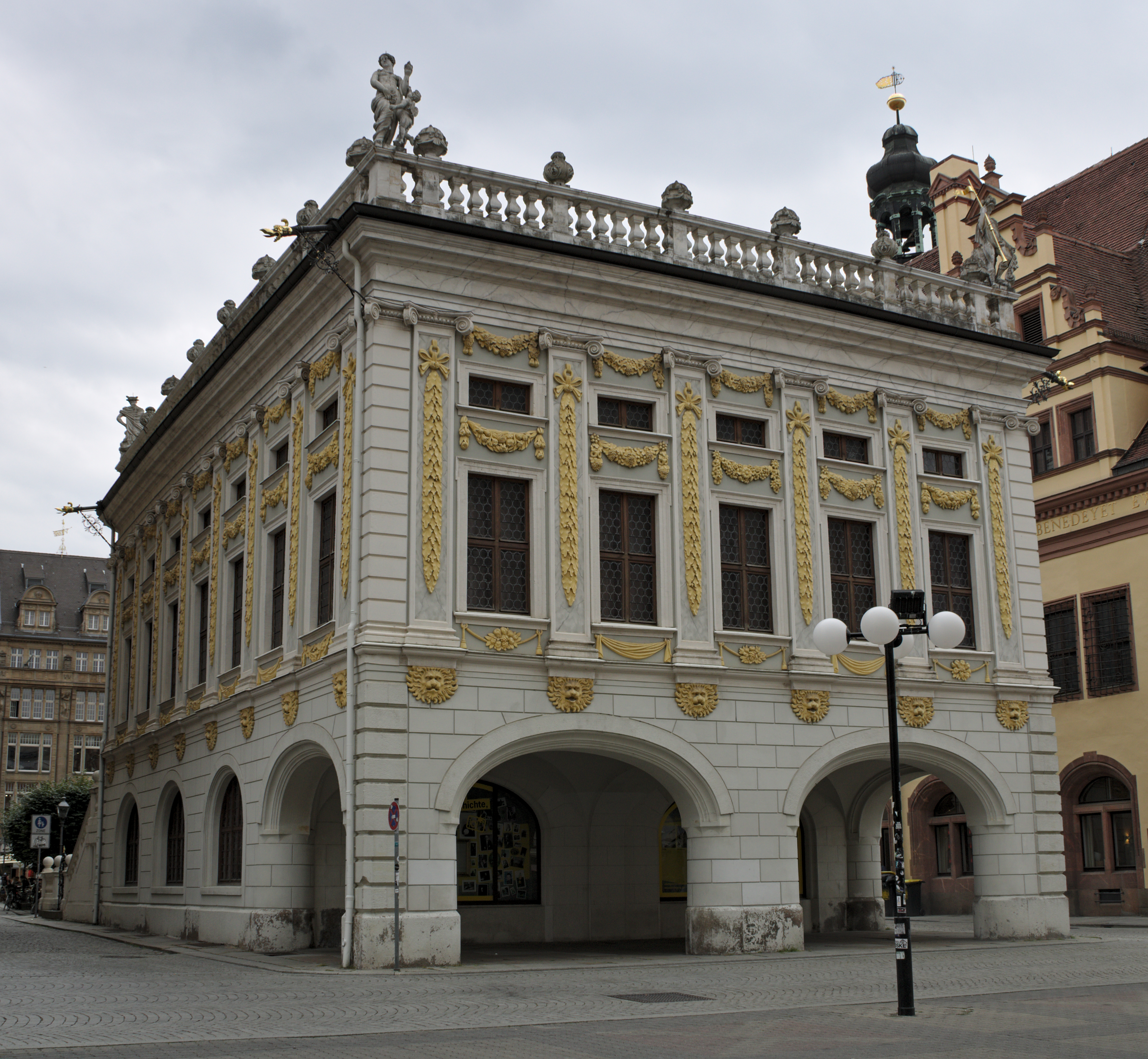 Alte_Boerse_Leipzig in 2019